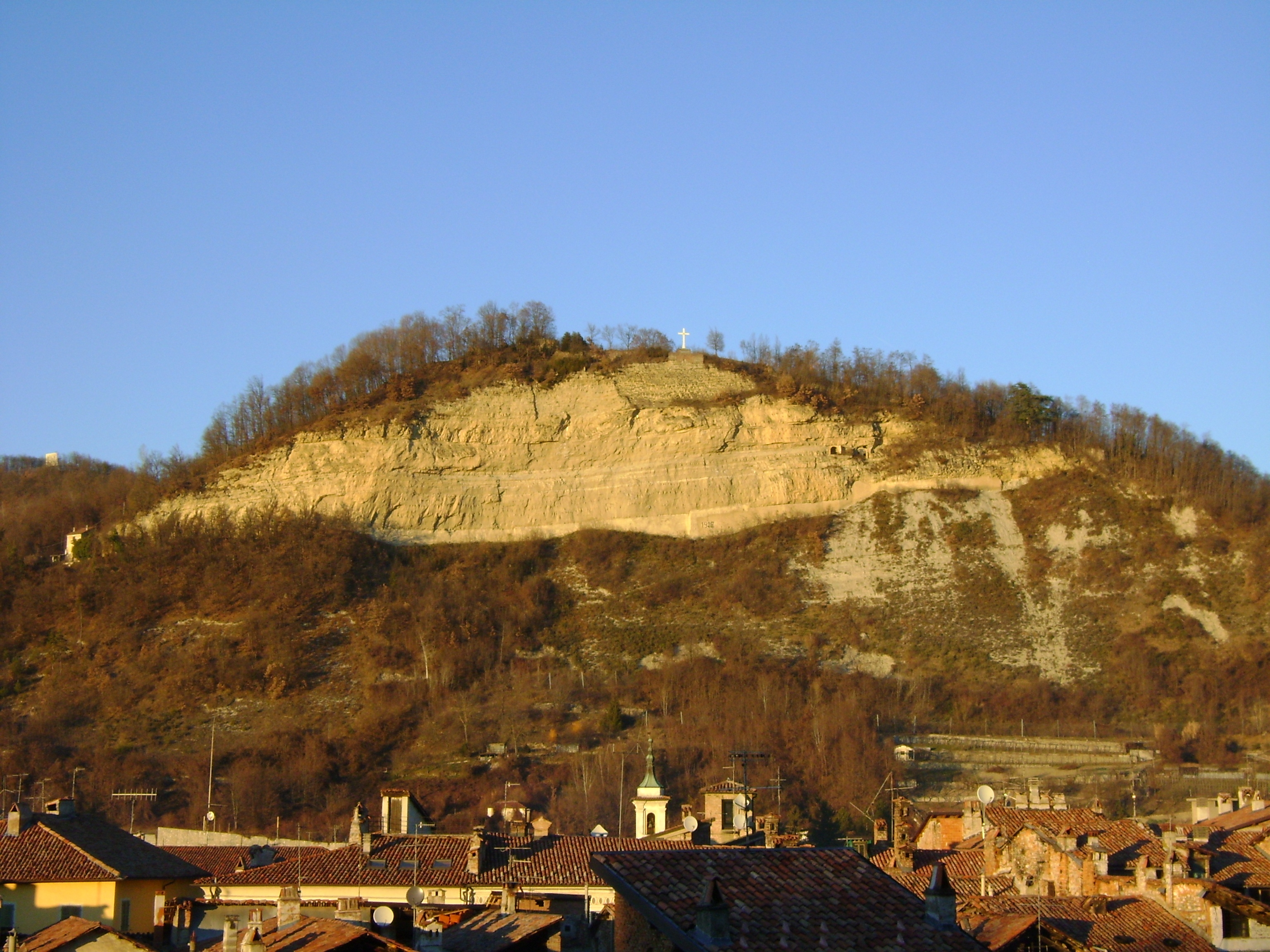 Hill called Rocca del Forte at Ceva (Italy)